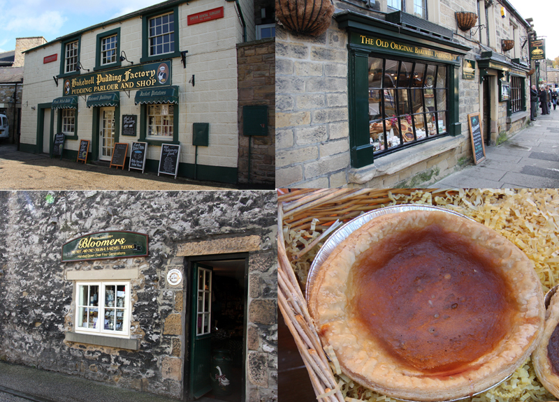 Montage of Bakewell's 3 Pudding shops with an image of a Bakewell Pudding